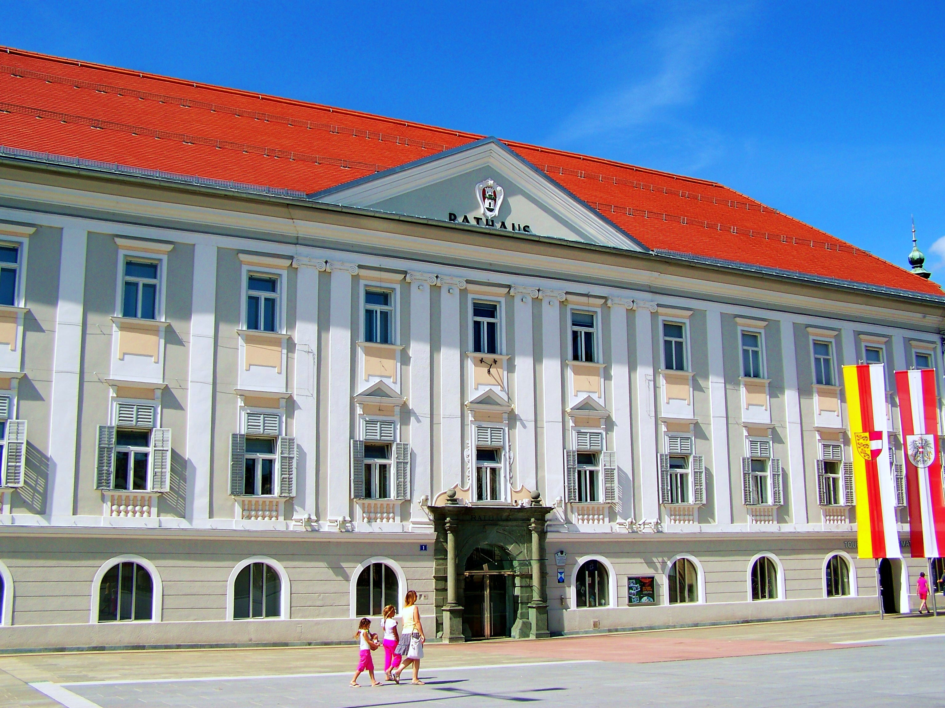 Town Hall in Klagenfurt, Austria